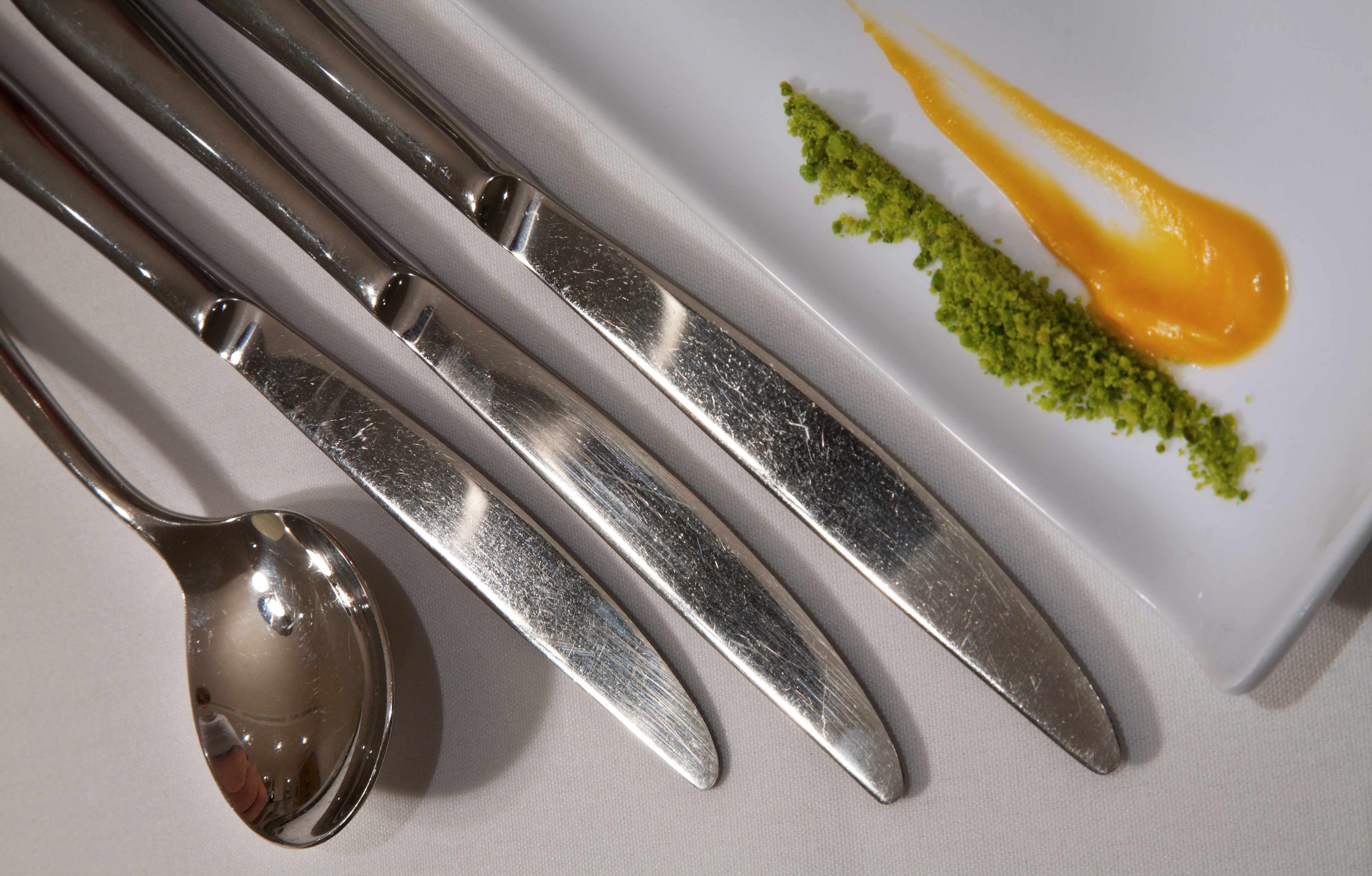 Private Chef Cutlery, London